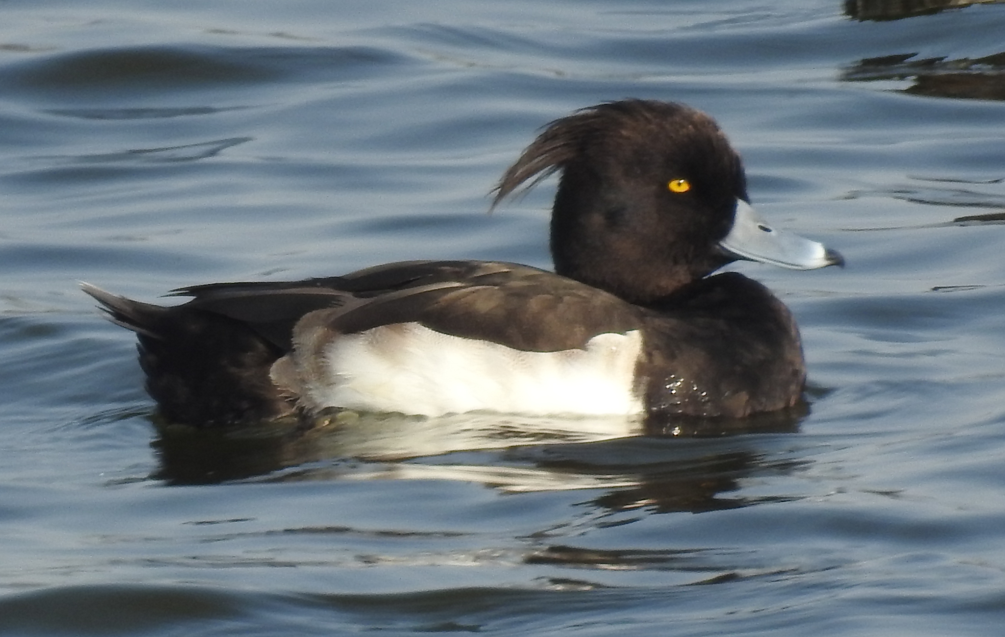 Tufted Duck Aythya fuligula Male. Photographed by Dr. Raju Kasambe at Lakhota Lake, Jamnagar, Gujarat, India.